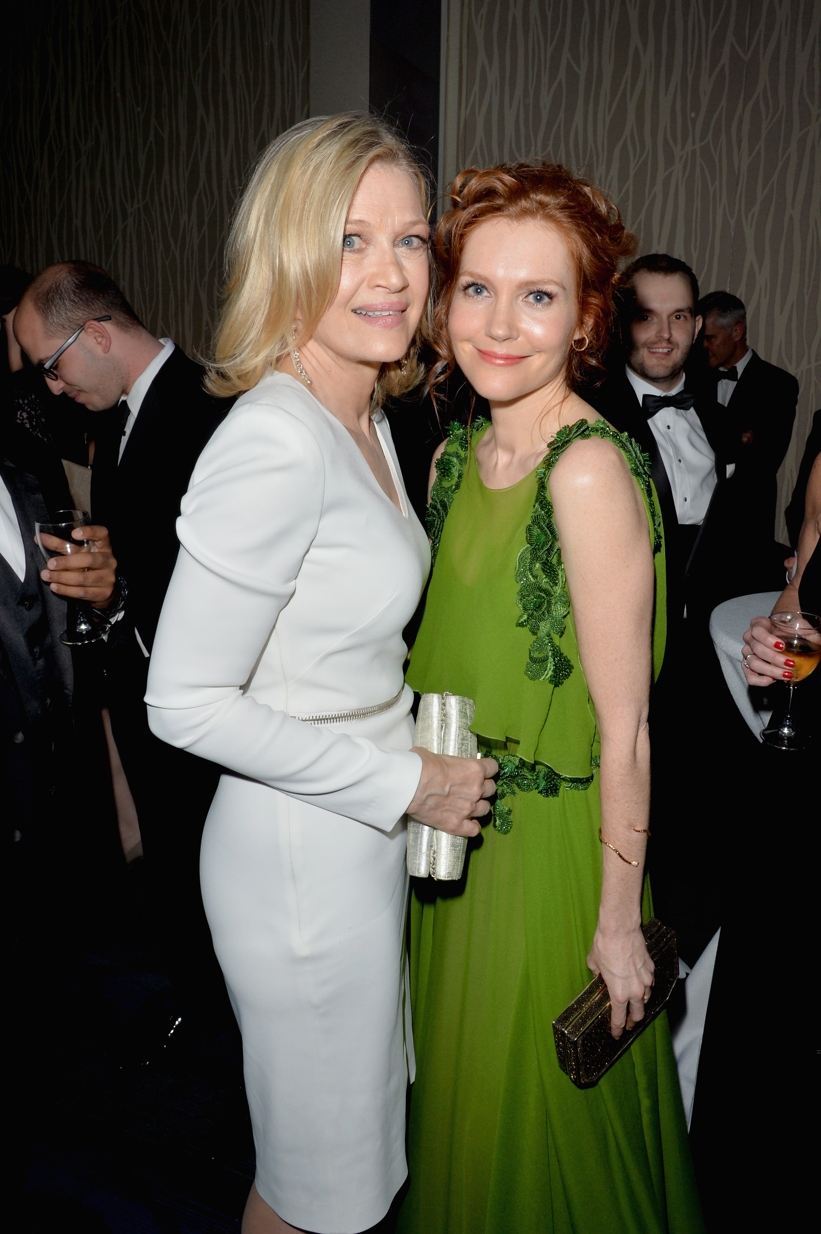 WASHINGTON, DC - MAY 03: Diane Sawyer (L) and Darby Stanchfield attend the Yahoo News/ABCNews Pre-White House Correspondents' dinner reception pre-party at Washington Hilton on May 3, 2014 in Washington, DC. (Photo by Andrew H. Walker/Getty Images for Yahoo News)